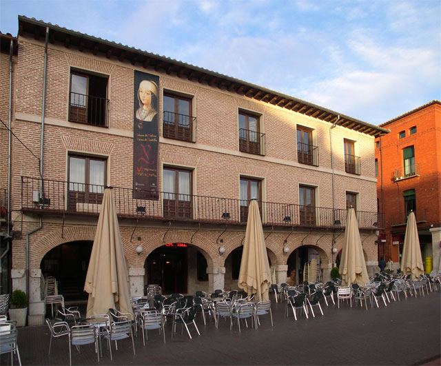 «Casa del Peso» (The House of Pounds): This building stands in the Main Square and it was established in 17th Century in order to keep the "Peso Real" (Royal Weight) and to guarantee the official weights and measures (Medina del Campo, Valladolid province, Spain)